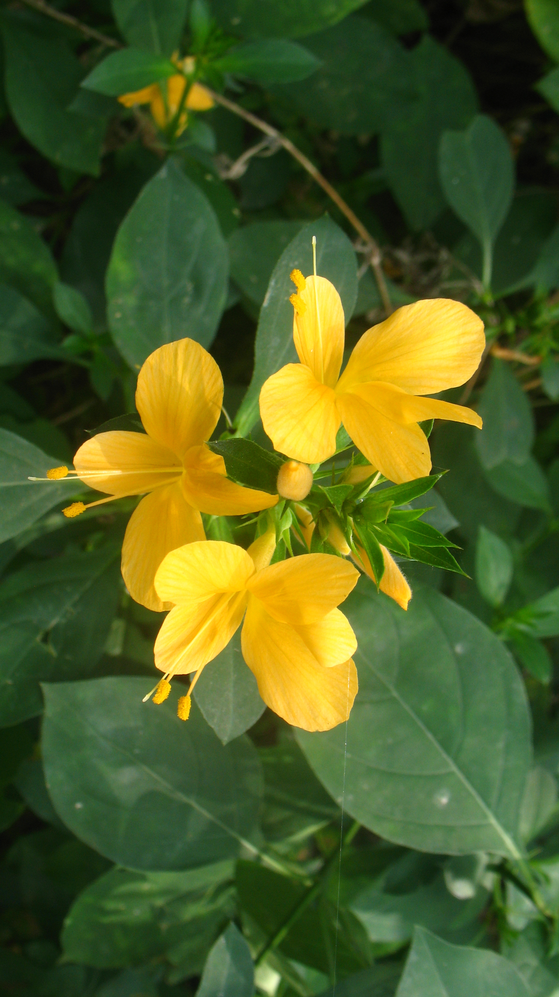 Barleria prionitis (കുറുഞ്ഞി)